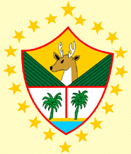 Coat of arms of this department of Guatemala Permission